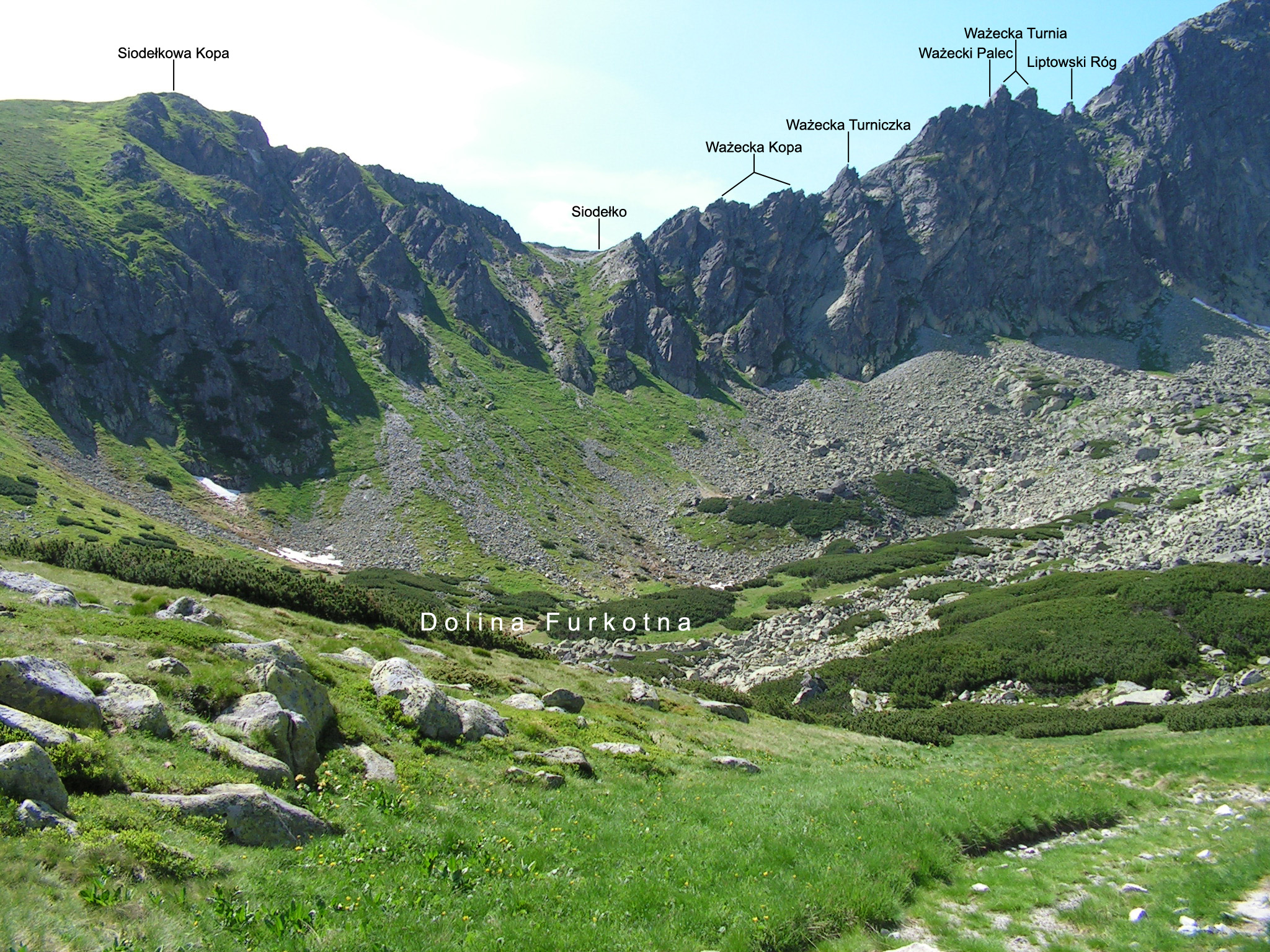 Ostrá veža, view from Furkotská dolina (with Polish captions).